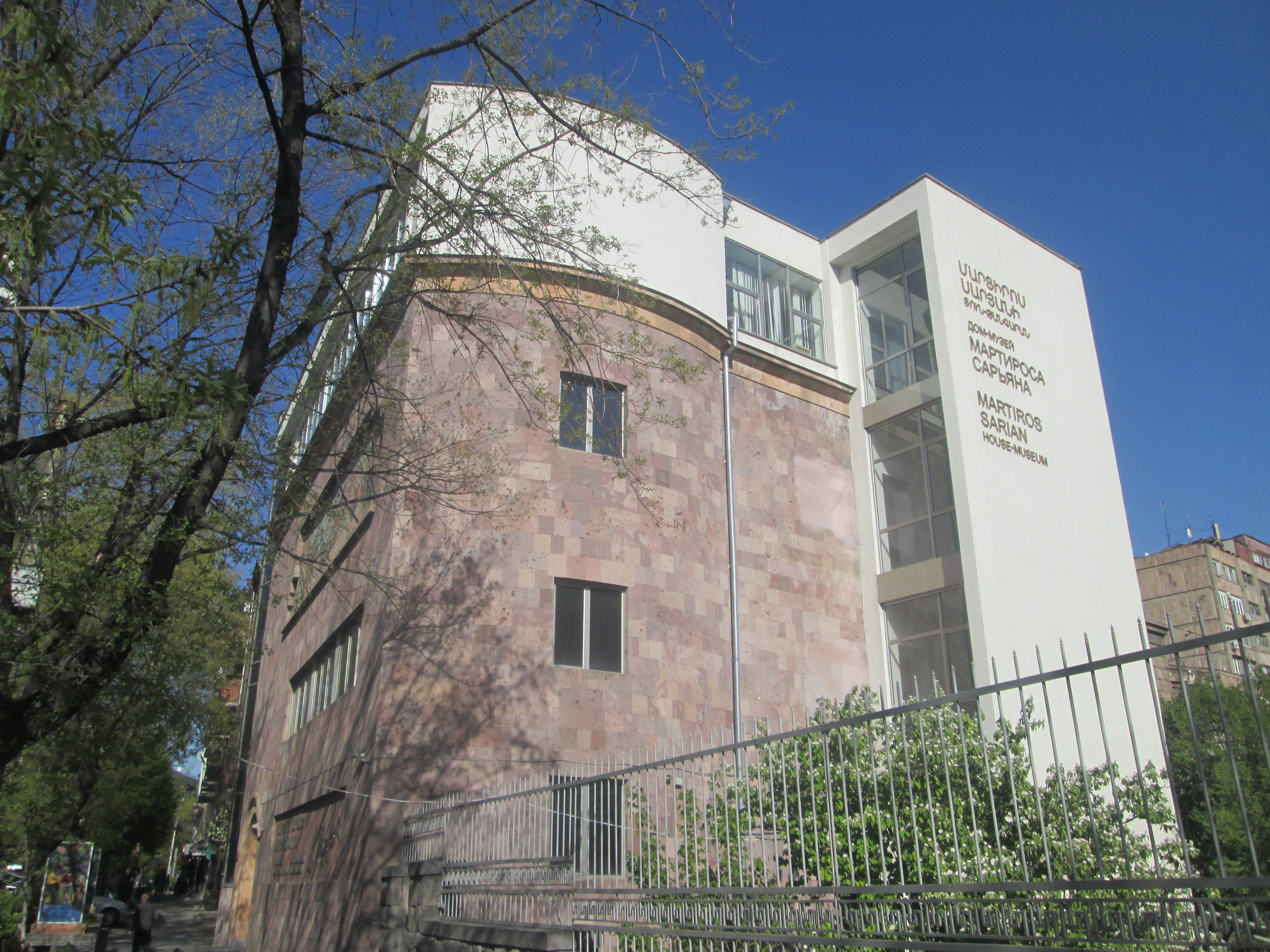 The left wing of the M.Sarian House-Museum